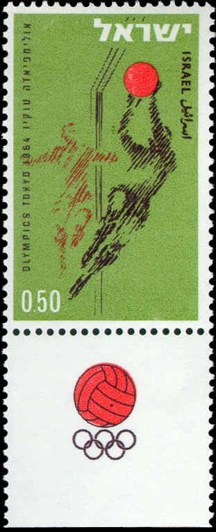 Stamp marking Israel at the 1964 Summer Olympics